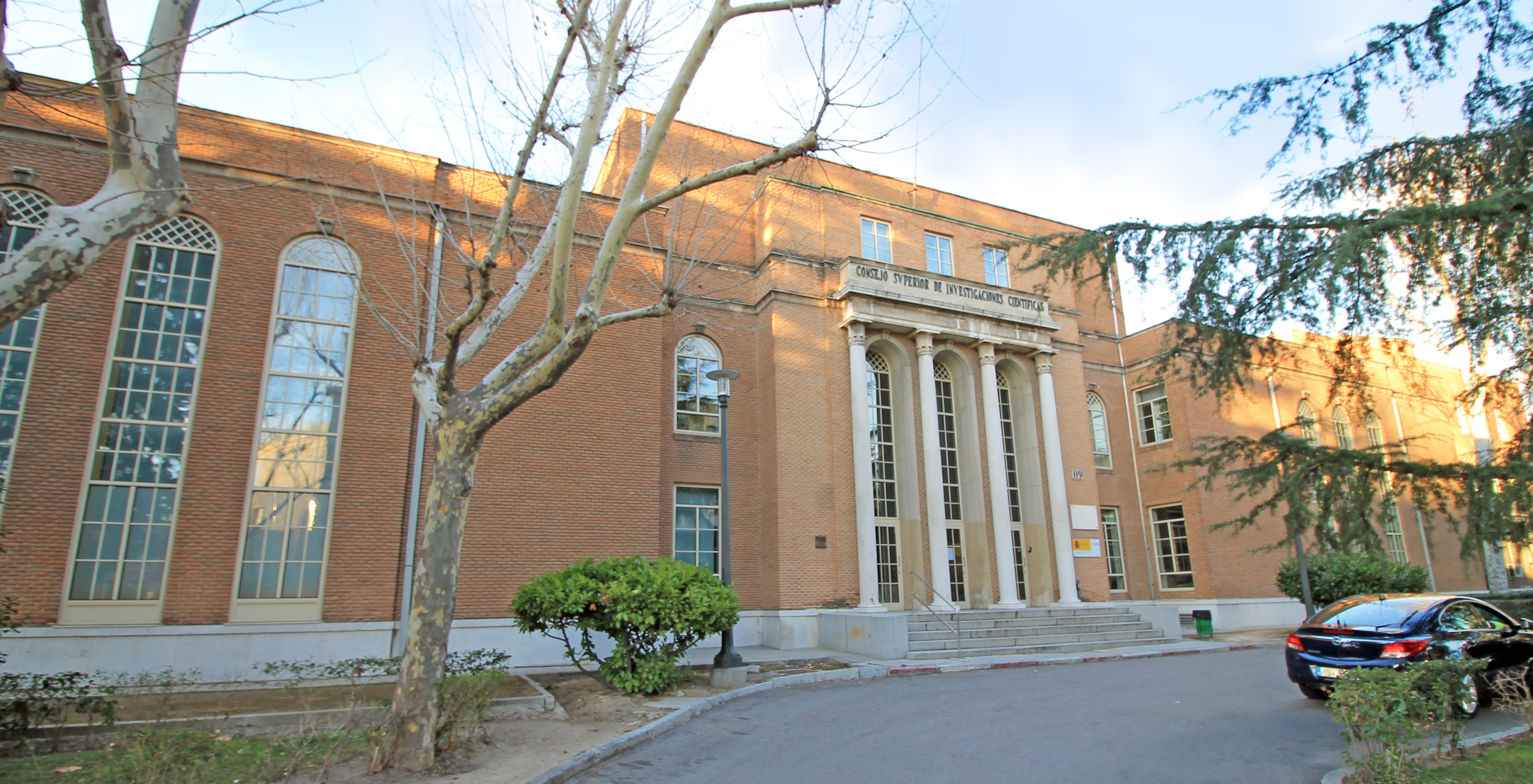 Façade of Rockefeller Building in Madrid (Spain).